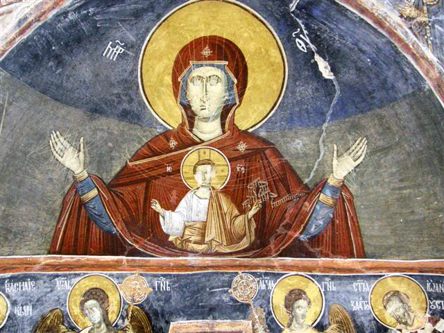 Fresco from St. George Church in Radišani, Macedonia